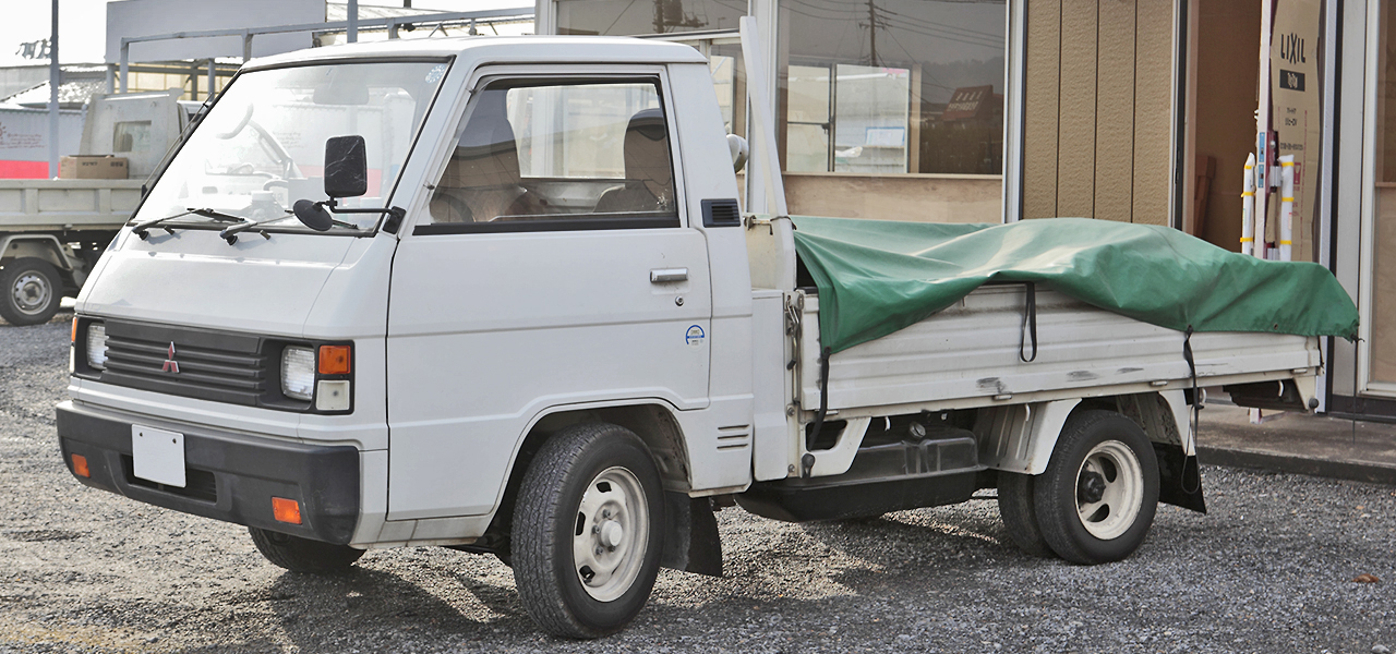 Second generation Mitsubishi Delica truck